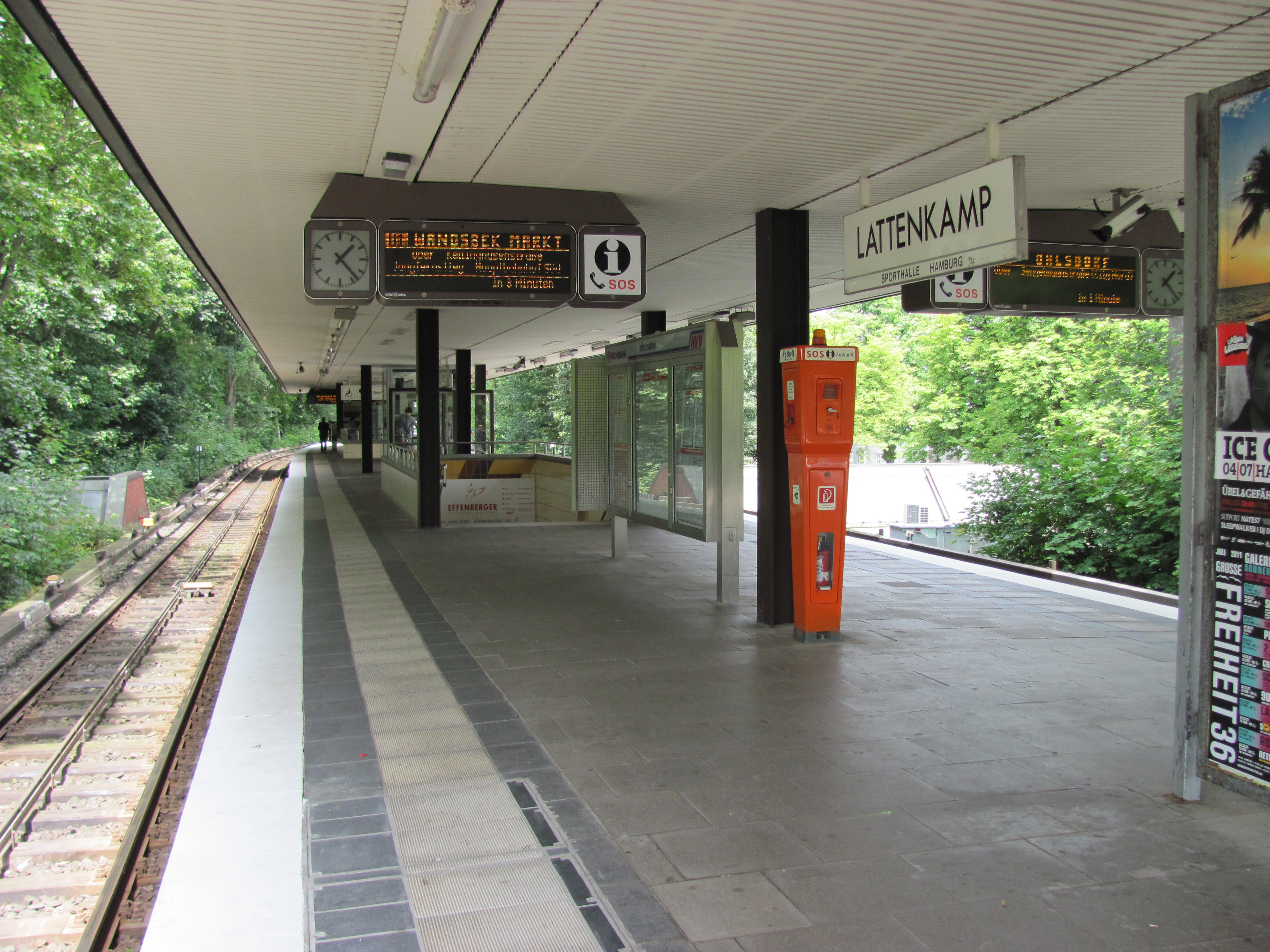 U-Bahn station Lattenkamp in Hamburg, Germany